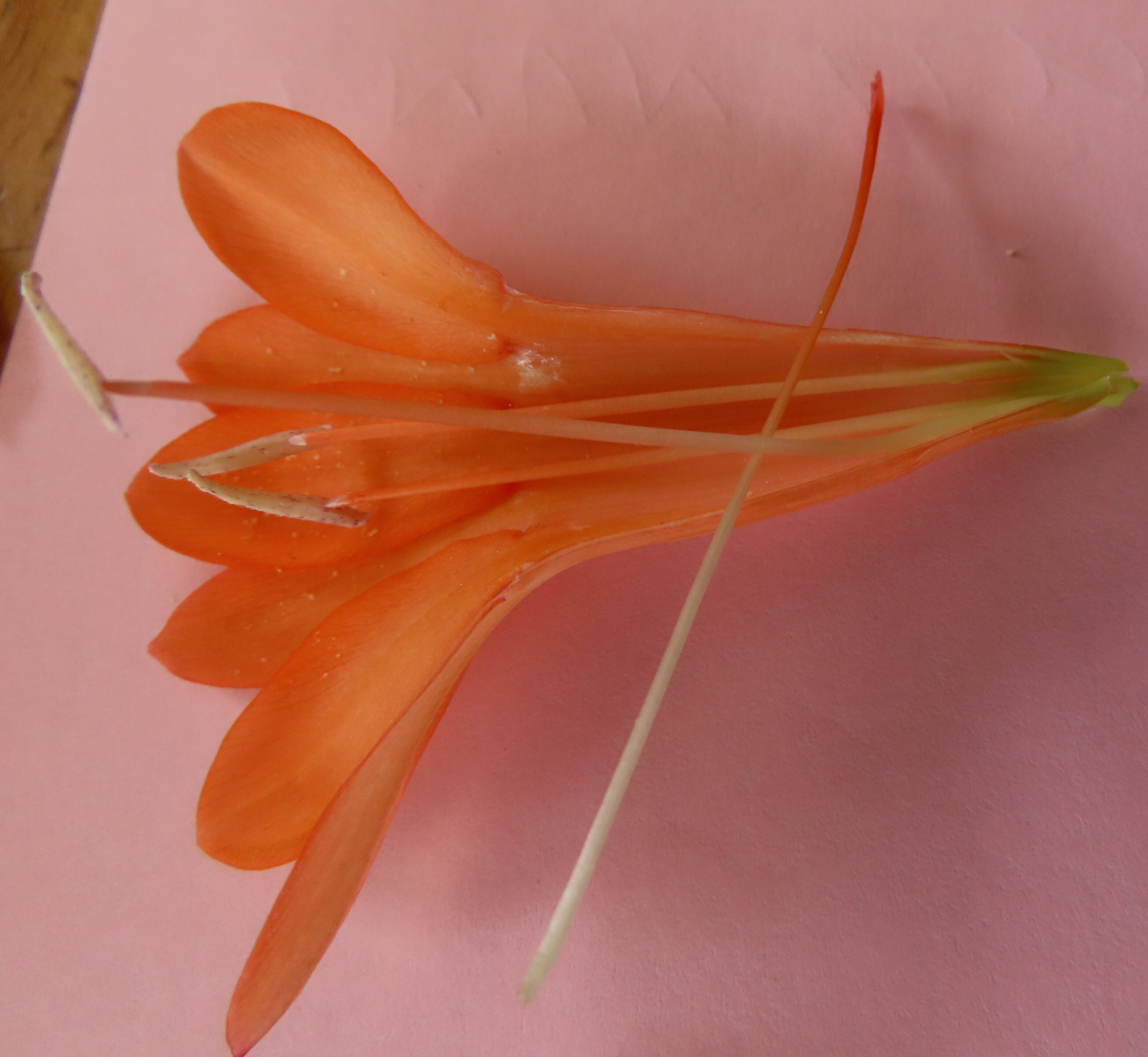 This Watsonia flower was split to show the adnate attachment of the bases of the stamens to the petals, and the connate attachment of the petals to each other to form a perianth tube.